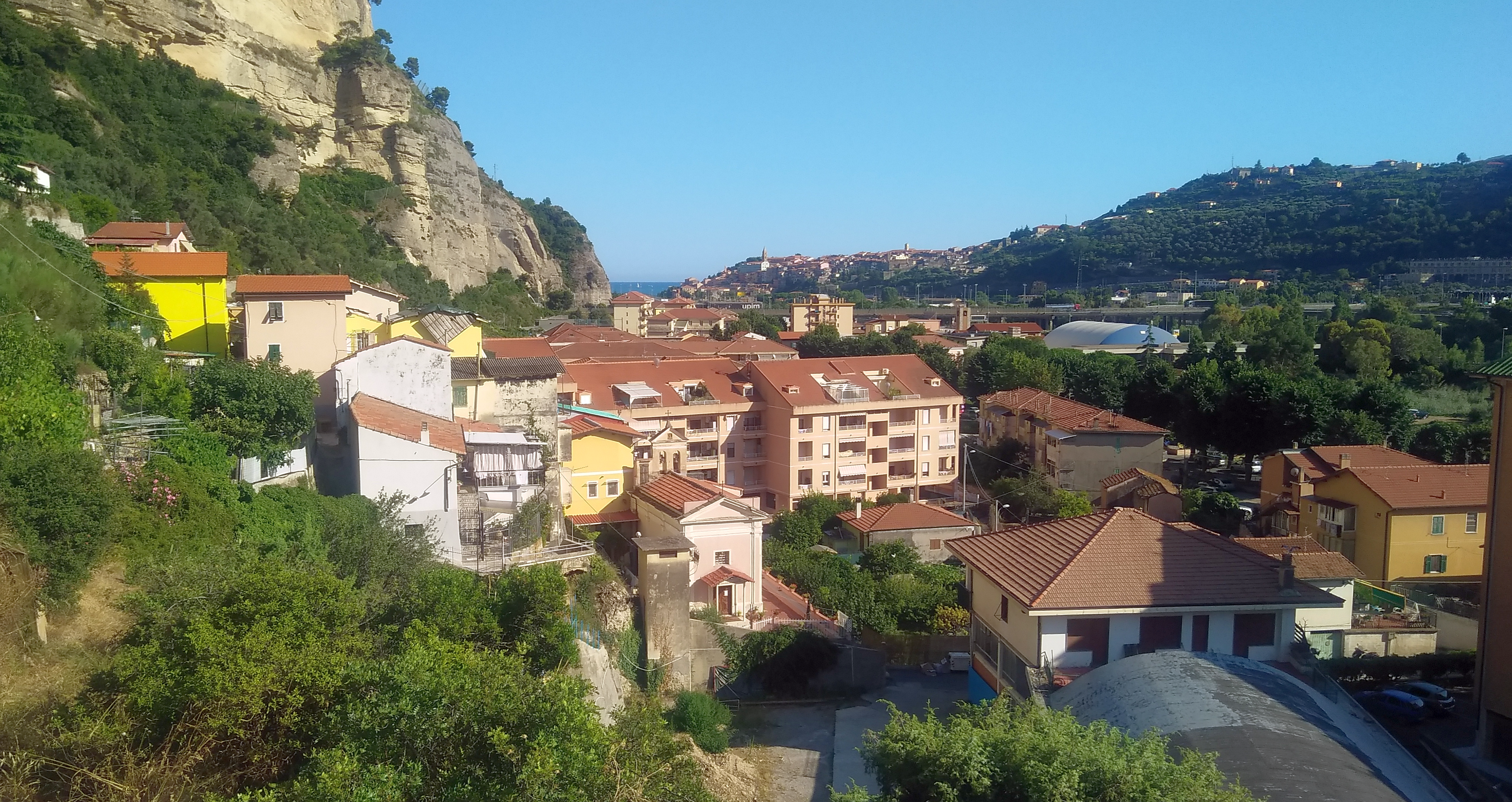 Roverino (Ventimiglia, IM, Italy)